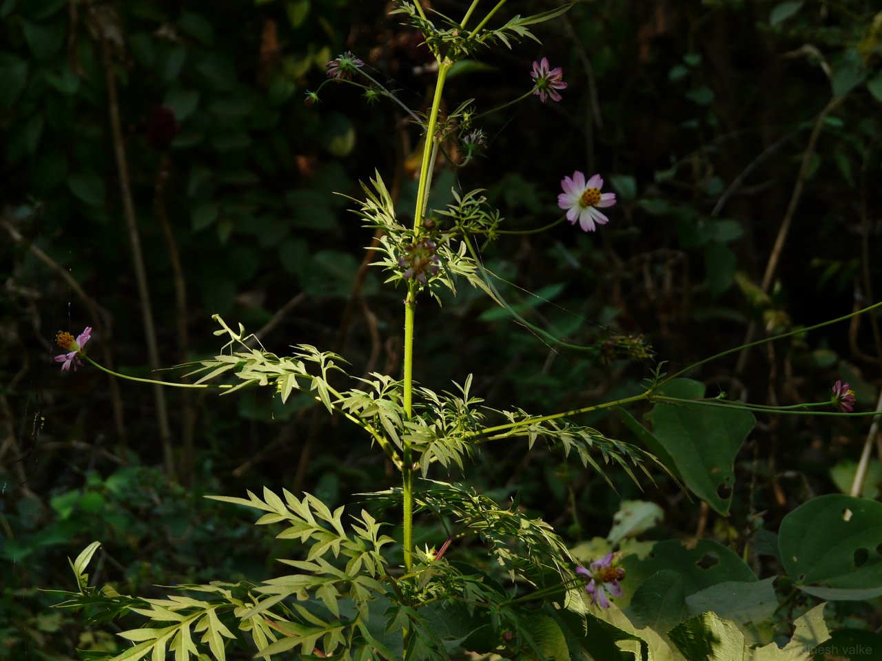 Asteraceae (aster, daisy, or sunflower family) » Cosmos caudatus KOS-mus -- from the Greek kosmikos, meaning universe kaw-DAH-tus -- meaning, with a tail commonly known as: wild cosmos • Malay: kenikir, ulam raja Native to: tropical Americas References: NPGS / GRIN • PIER species info